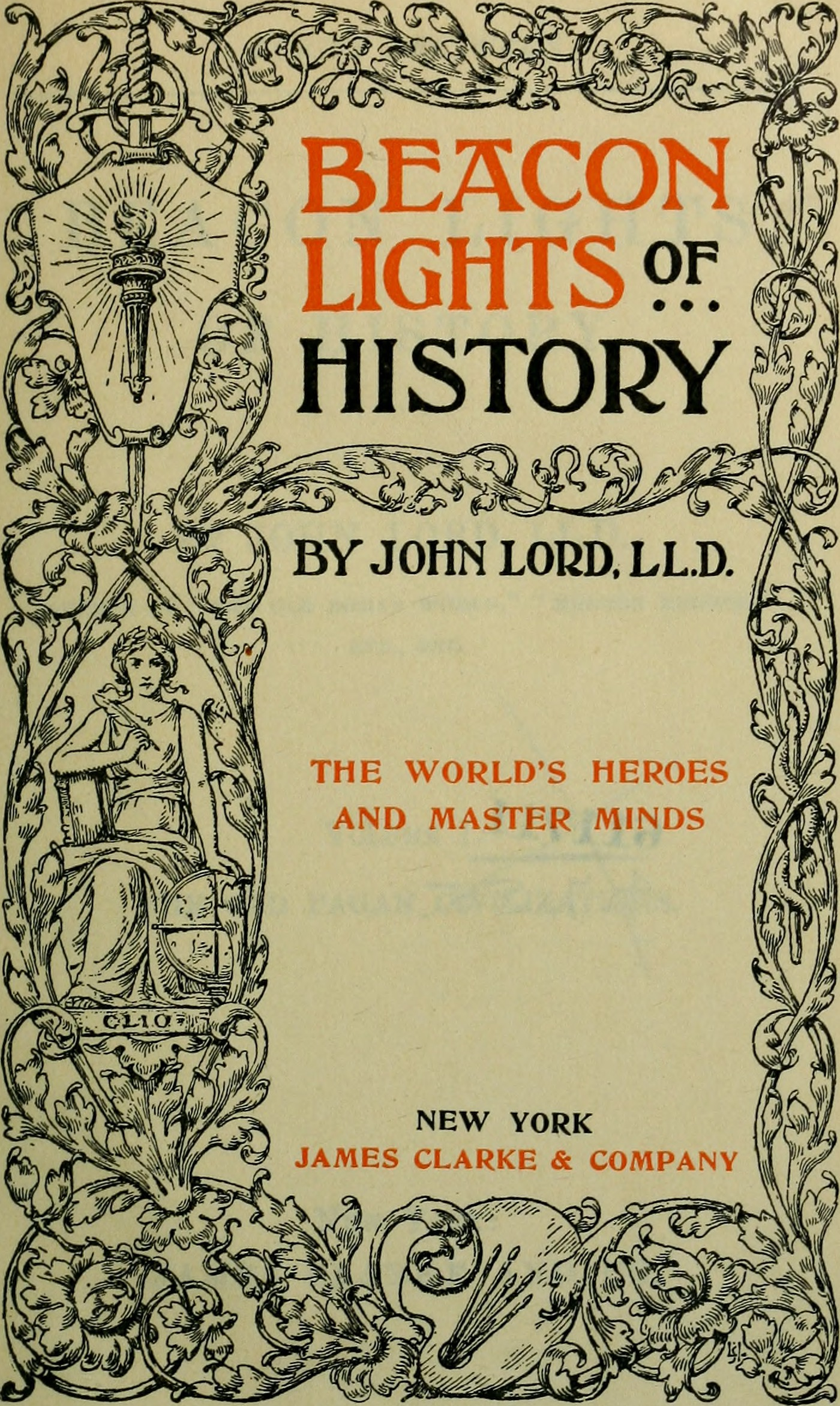 Title: Beacon lights of history. (The world's heroes and master minds) Year: 1888 (1880s) Authors: Lord, John, 1810-1894 Subjects: Publisher: New York, J. Clarke Text Appearing Before Image: ' Text Appearing After Image: LORDS LECTURES BEACON LIGHTS OF HISTORY. By JOHN LORD, LL.D., i^THOB or TSK CD KOMA,. WOI,I.D, MODKB» BimOM/ ETC., ETC. Volume I.THE OLD PAGAN CIVILIZATIONS. New Yokk:JAMES CLARKE AND CO. Copyright, 1883, 1888,By John Lord. him I ^a tfje Plemorg ofMARY PORTER LORD, WHOSE FRIENDSHIP AND APPRECIATION AS A DEVOTED WIFE ENCOURAGED ME TO A LONG LIFE OF HISTORICAL LABORS, IS GRATEFULLY AND AFFECTIONATELY DEDICATEDBY THE AUTHOR. PUBLISHERS NOTE. IN preparing a new edition of Dr. Lords great work,the Beacon Lights of History, it has been nec-essary to make some rearrangement of lectures andvolumes. Dr. Lord began with his volume on classic Antiquity, and not until he had completed five vol-umes did he return to the remoter times of Old PaganCivilizations (reaching back to Assyria and Egypt)and the Jewish Heroes and Prophets. These issued,he took up again the line of great men and movements,and brought it down to modern days. The Old Pagan Civilizations, of course, stretchthousands of years b